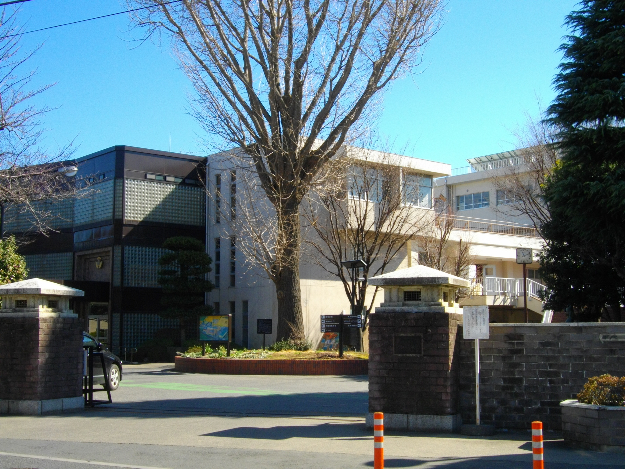 Saitama Prefectural Urawa High School